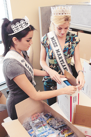 Miss Maryland Teen USA Ana Maria Lawson and Miss Maryland USA Casandra Tressler assemble care packages at the Reserve Center January 12th. The packages will go to Soldiers of the 48th Combat Support Hospital and their patients in Afghanistan